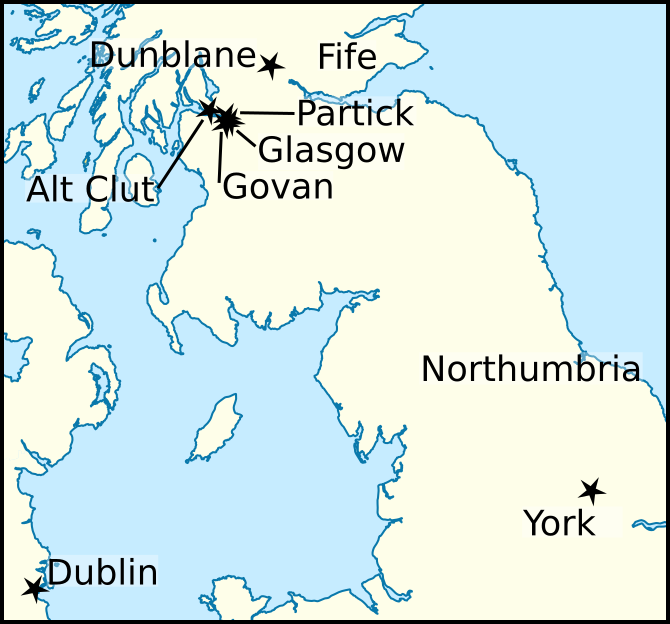 Map for the Wikipedia article concerning Arthgal ap Dyfnwal (died 872).